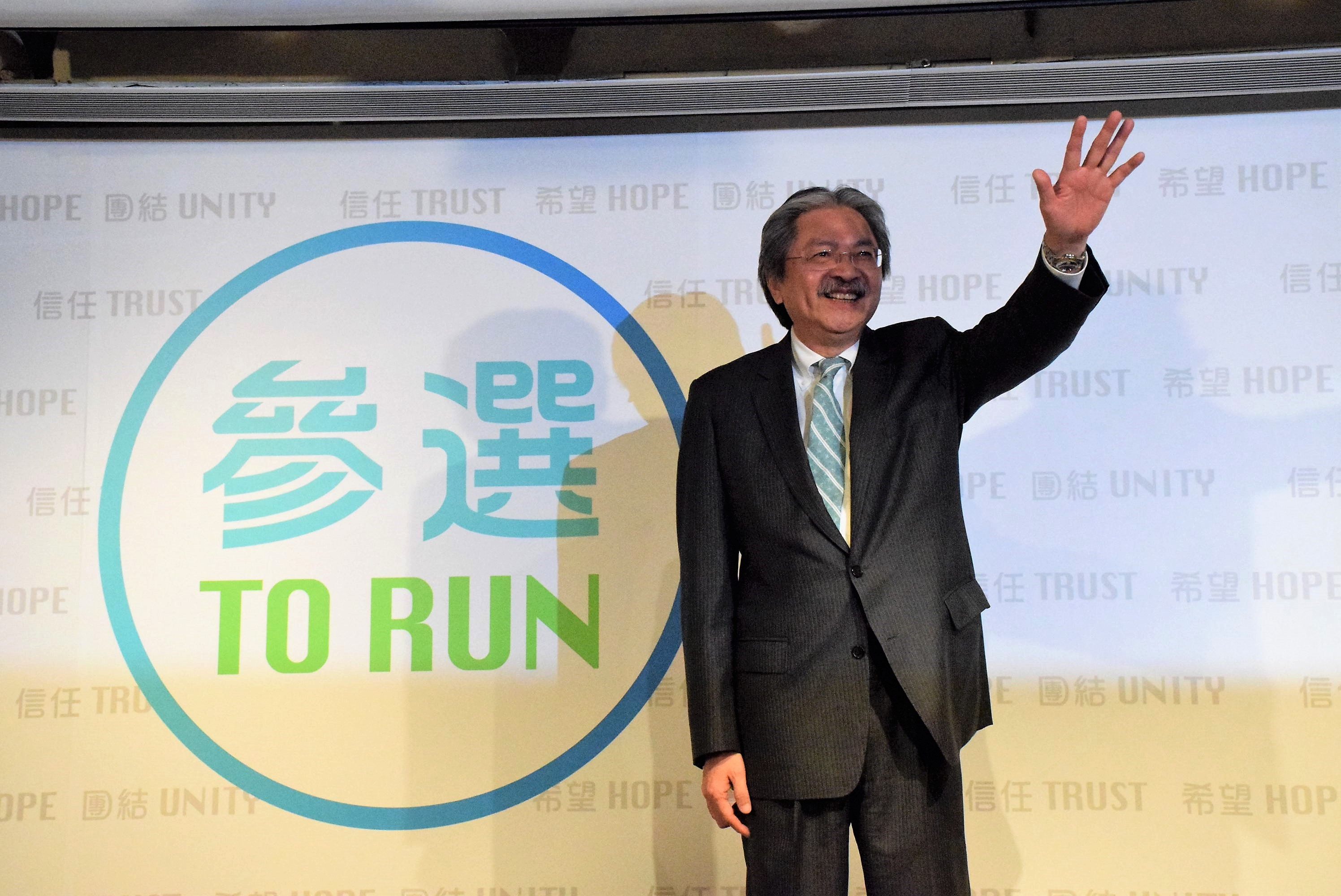 Former Financial Secretary officially announced his CE candidacy.